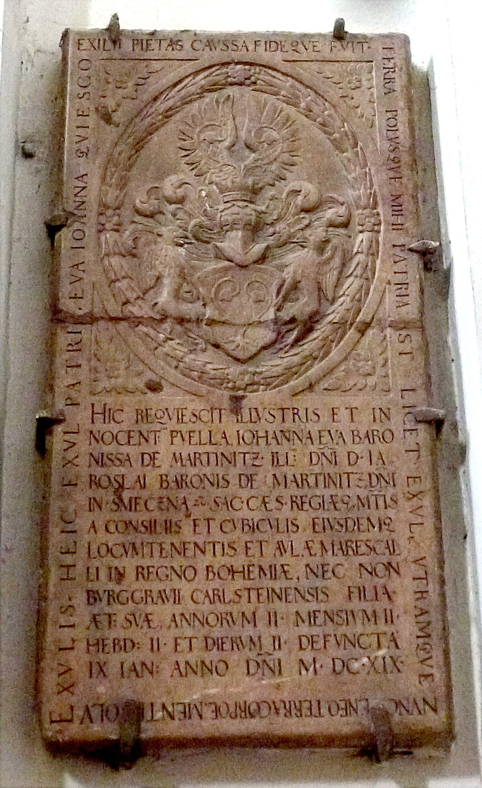 Munich, St. Peter, epitaph for Johanna Eva, daughter of Jaroslav Borsita of Martinic, red marble, 104 x 55 cm, 17th century